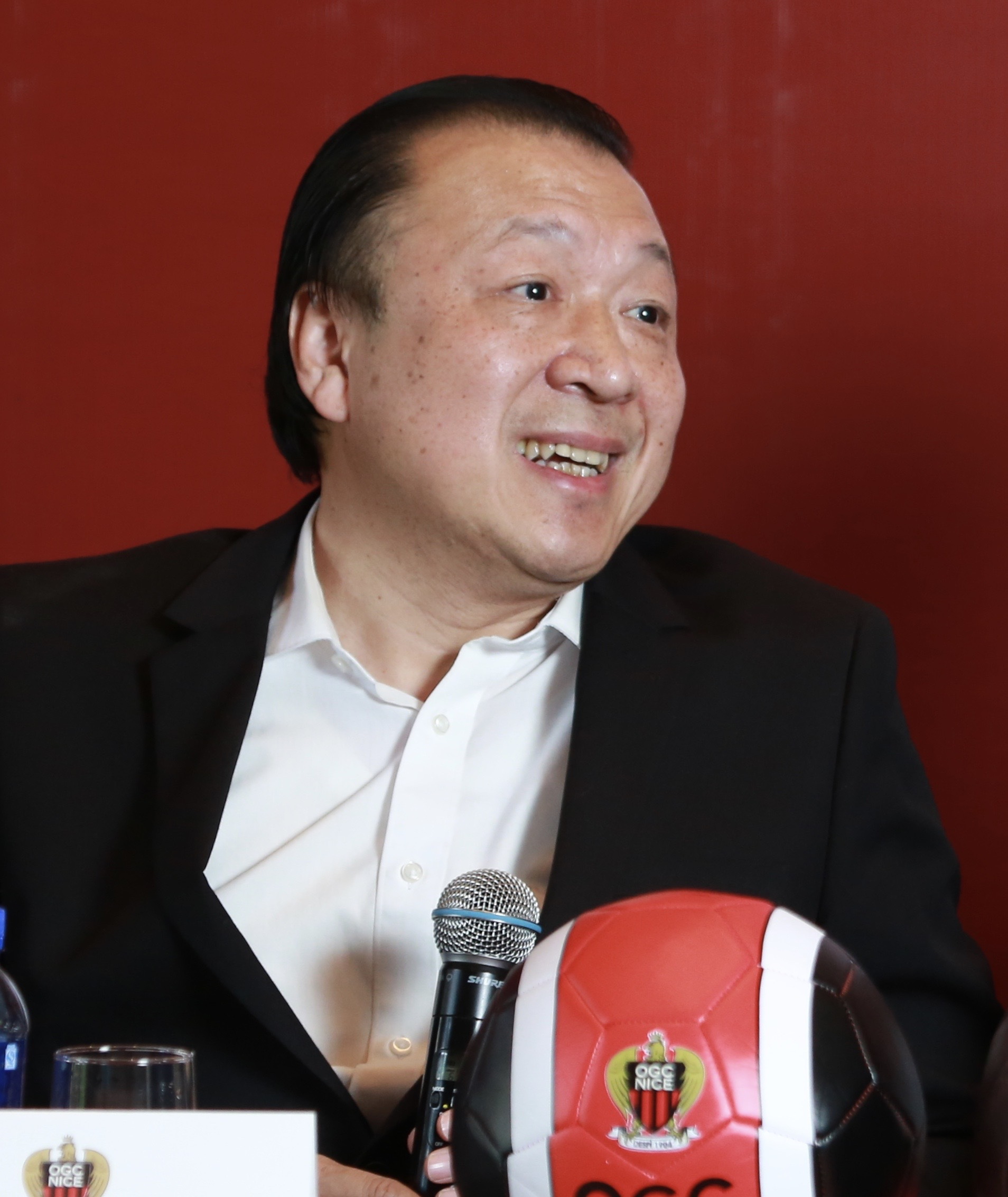 Chien Lee at OGC Nice(2)